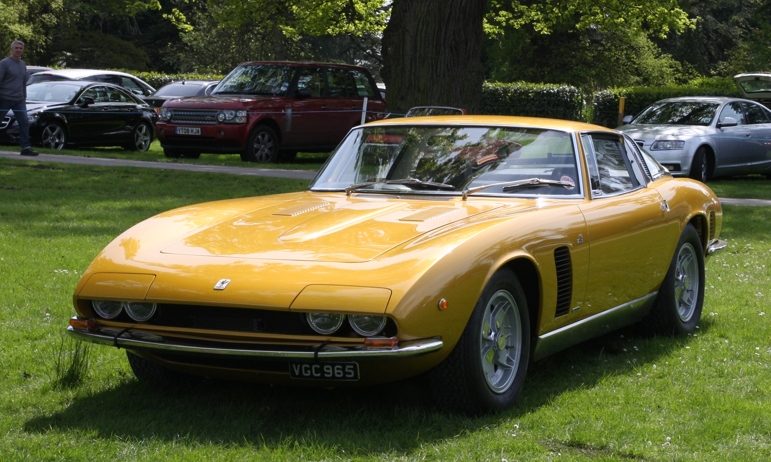 Iso Grifo